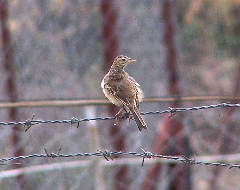 Richard's Pipit (Anthus richardi) in Hong Kong.